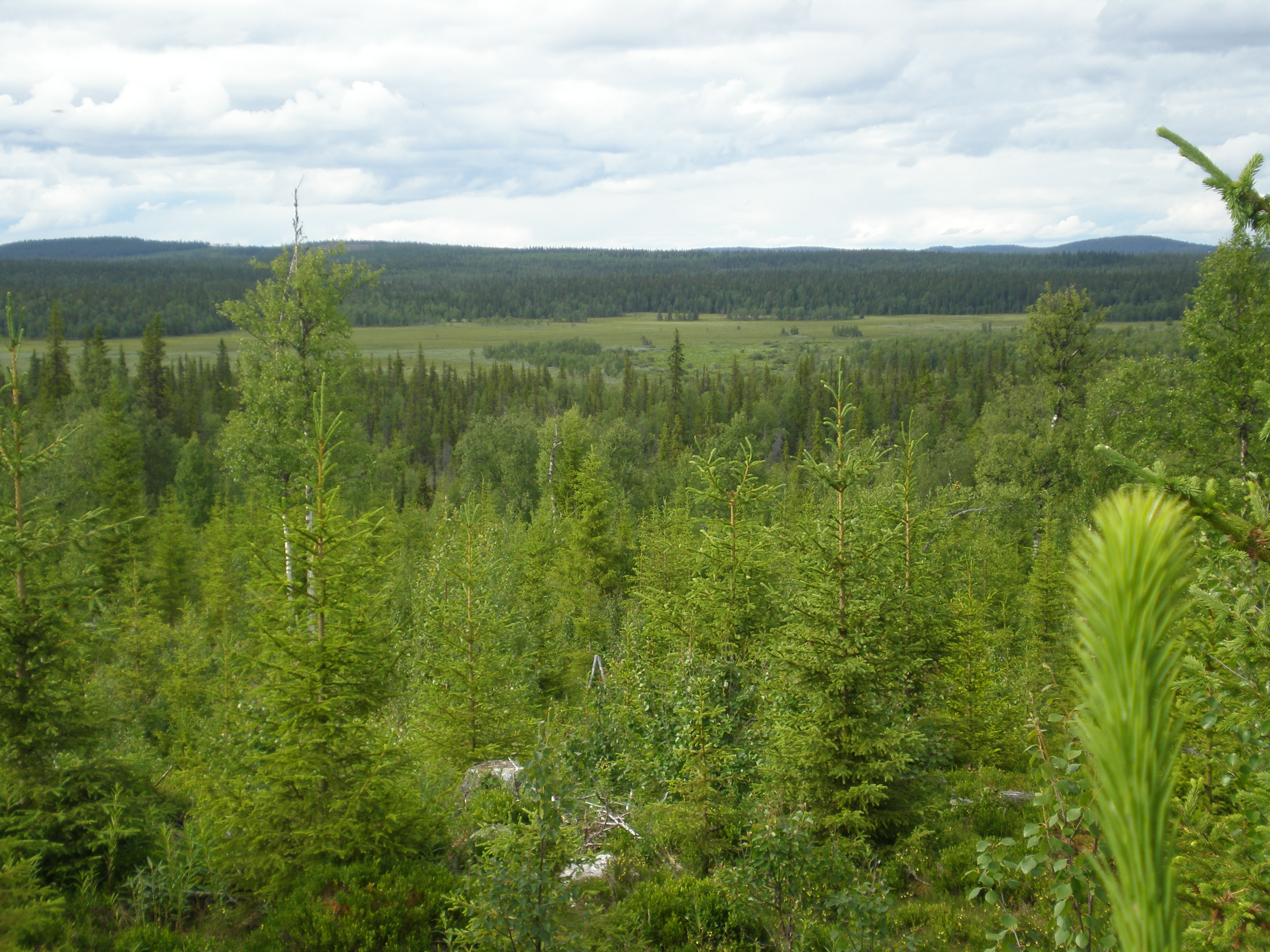 View of Grena, north of Sweden